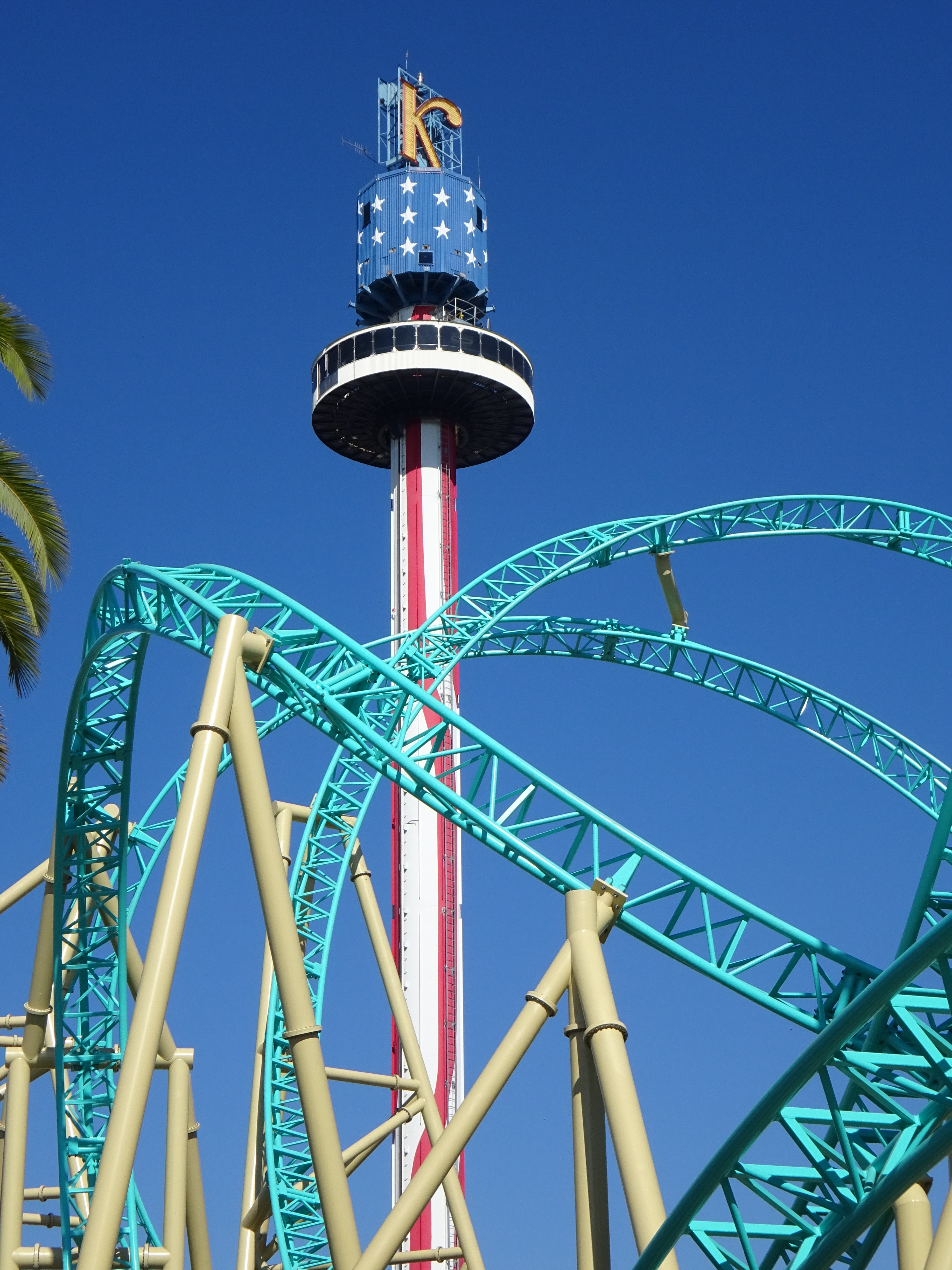 Sky Cabin